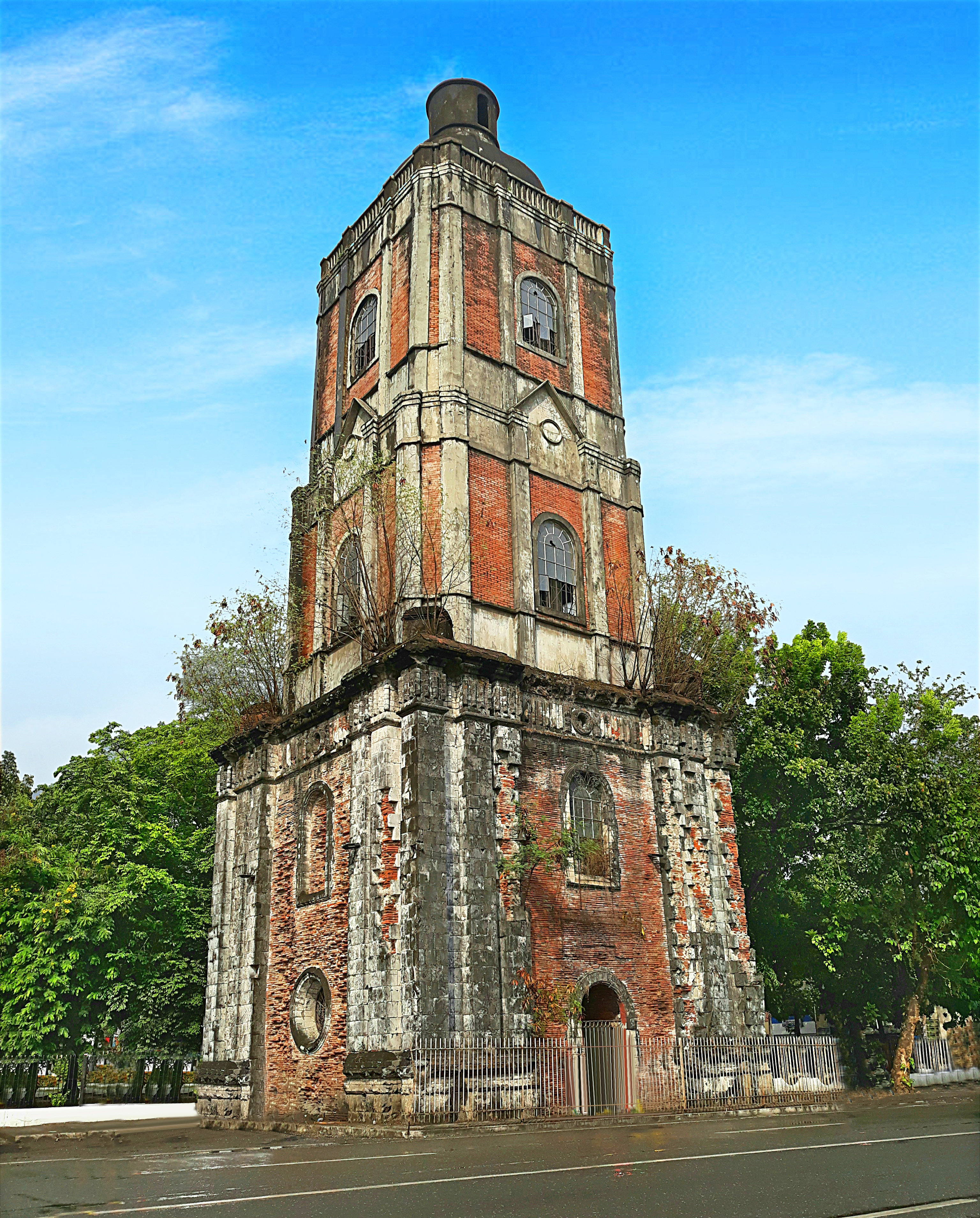 Campanario de Jaro (Jaro Belfry)